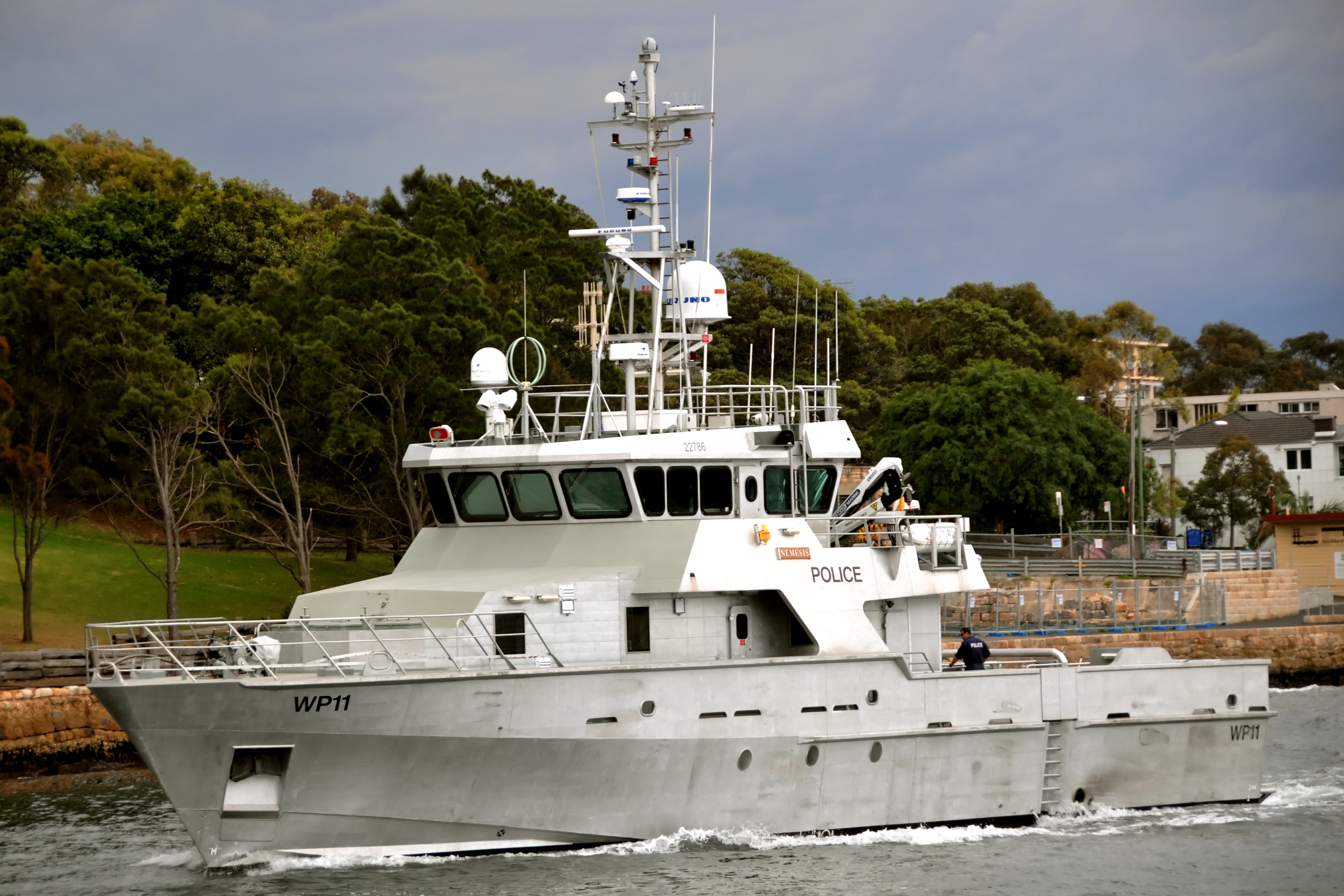 The following is the author's description of the photograph quoted directly from the photograph's Flickr page. "Largest offshore water police vessel in Australia. Two years in building, costing $11 million. The boat is capable of remaining at sea for up to 10 days and is fitted with bullet-proof materials. "